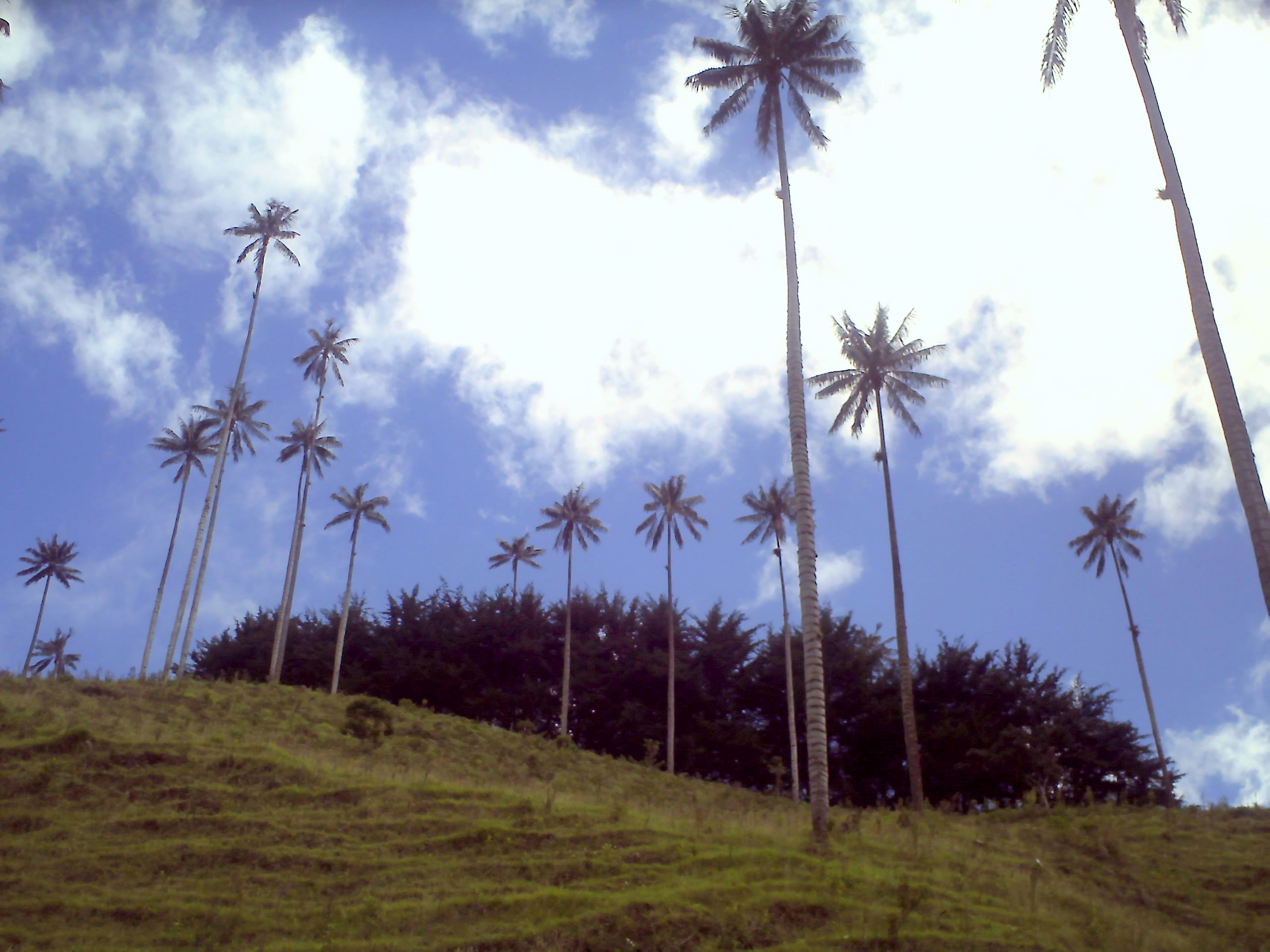 A view of the cocora valley